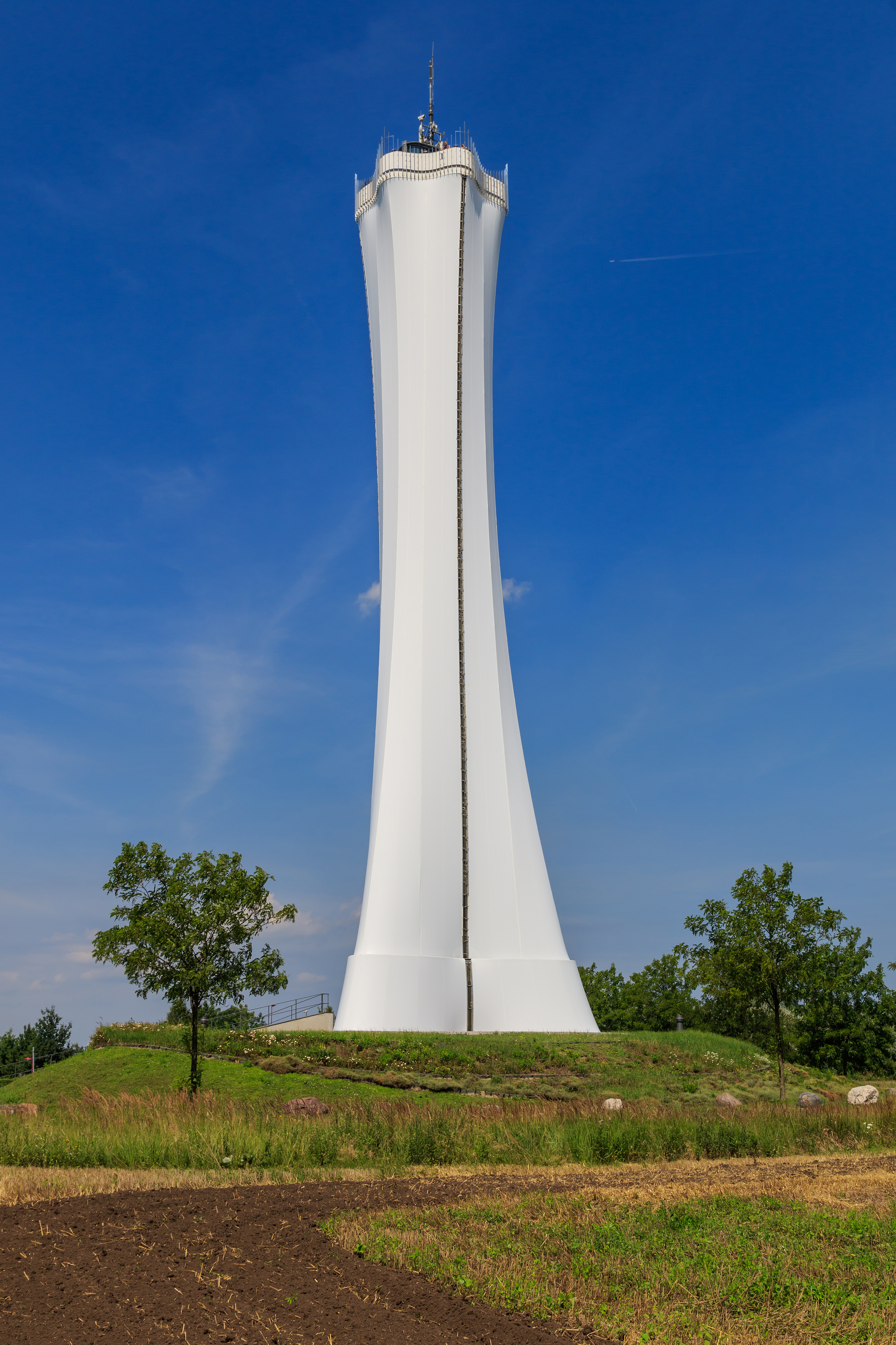 Teichland amusement park near Cottbus (Germany), observation tower